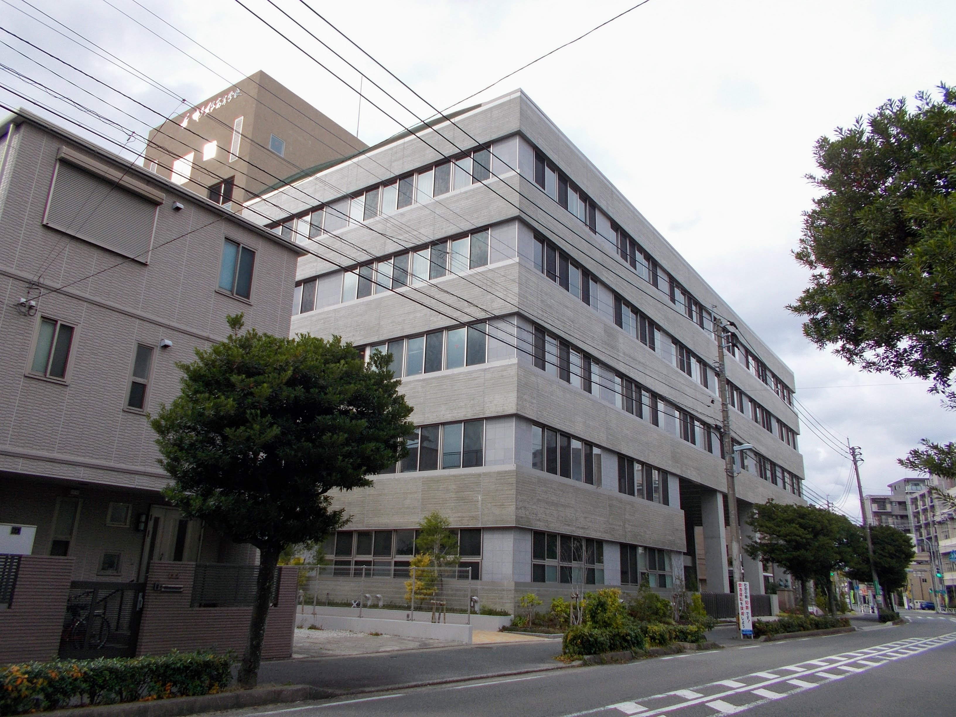 Hakata Girls' High School in Maidashi, Higashi-ku, Fukuoka, Japan